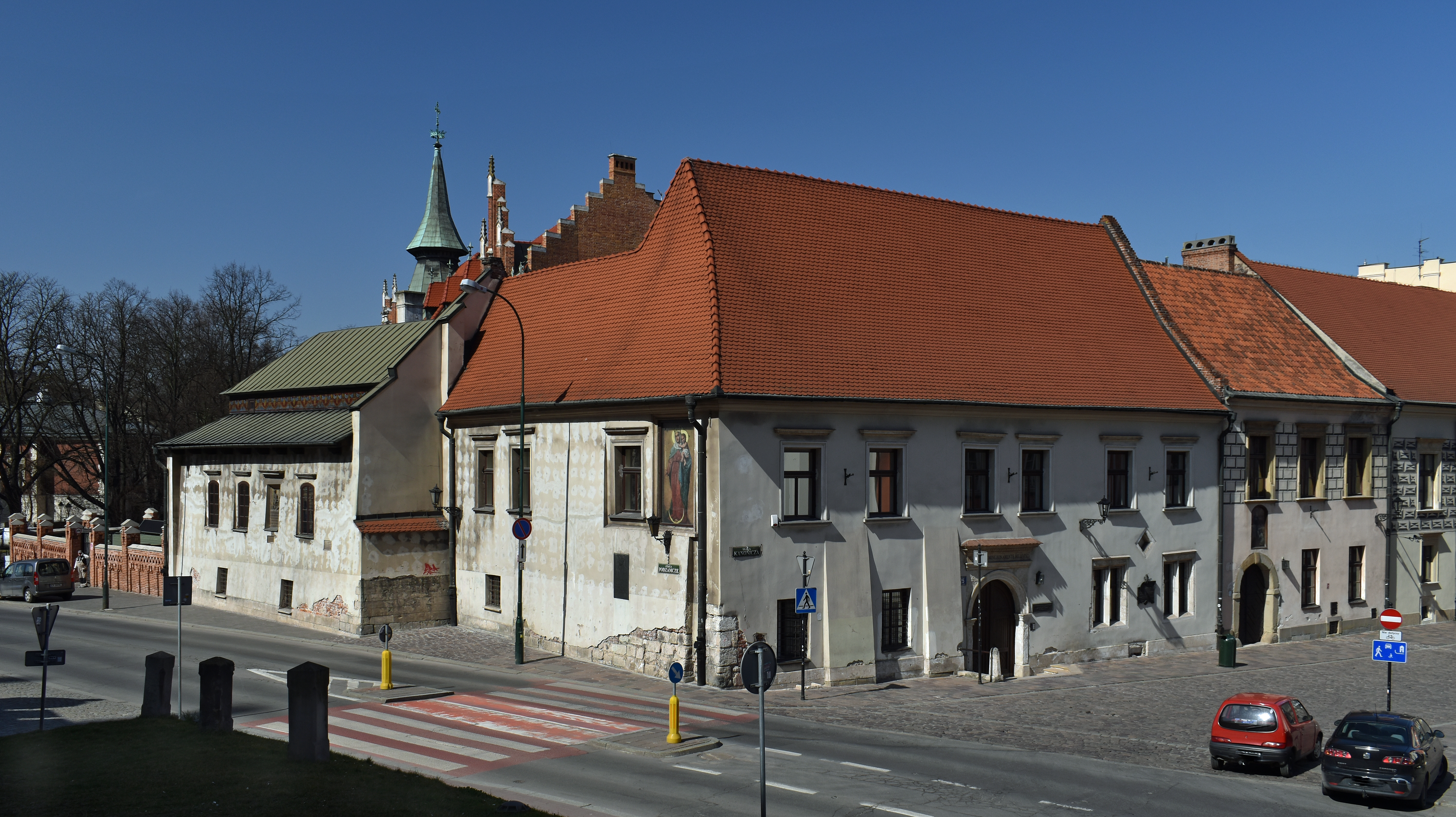 Jan Długosz House, 25 Kanonicza street, Old Town, Kraków, Poland